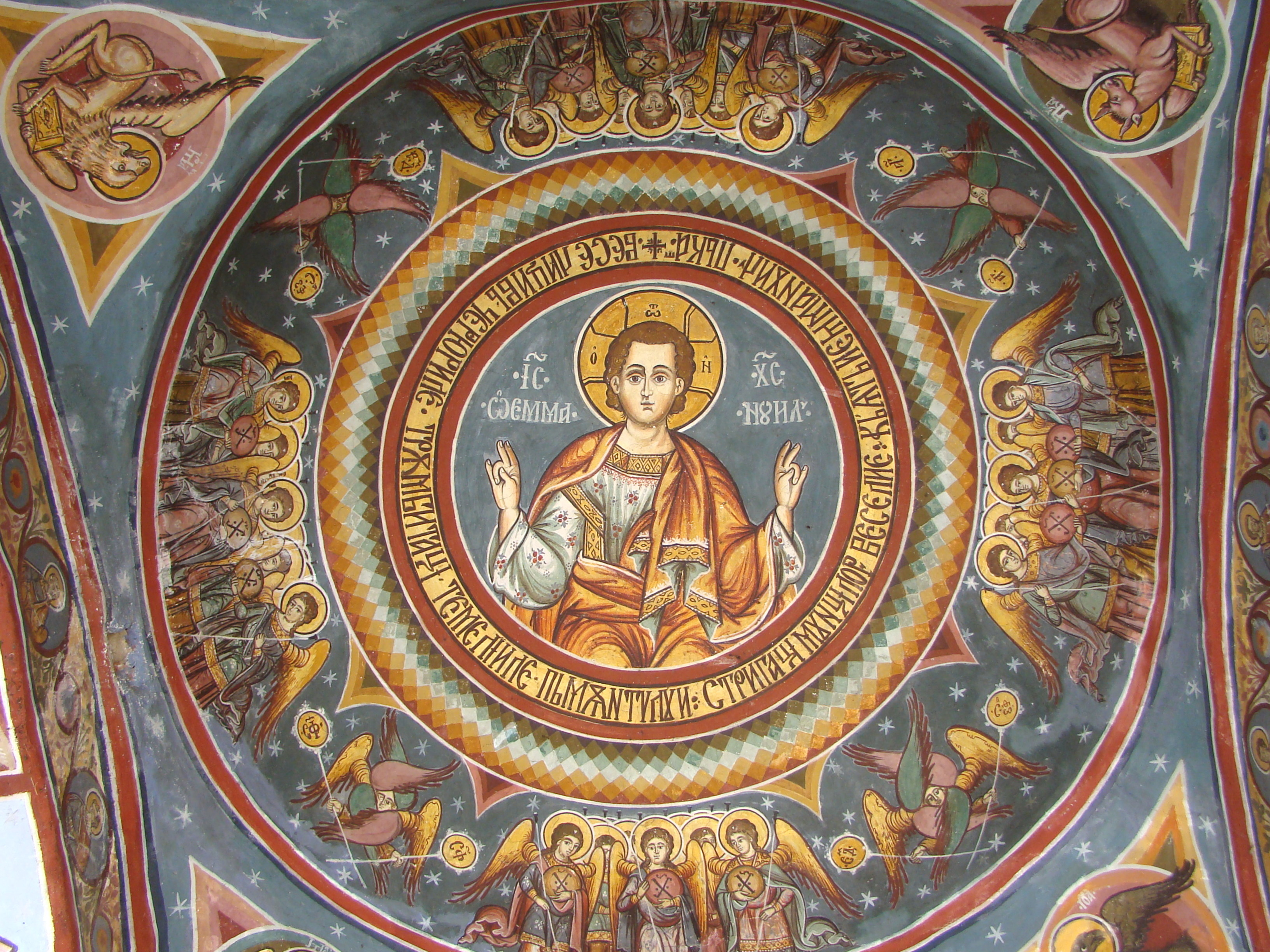 Church of Saint John the Baptist in Olănești, Vâlcea county, Romania